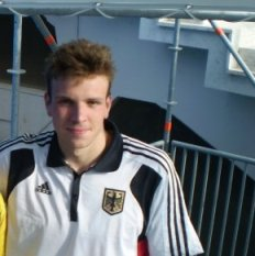 Paul Biedermann in Melbourne, at Rod Laver Arena